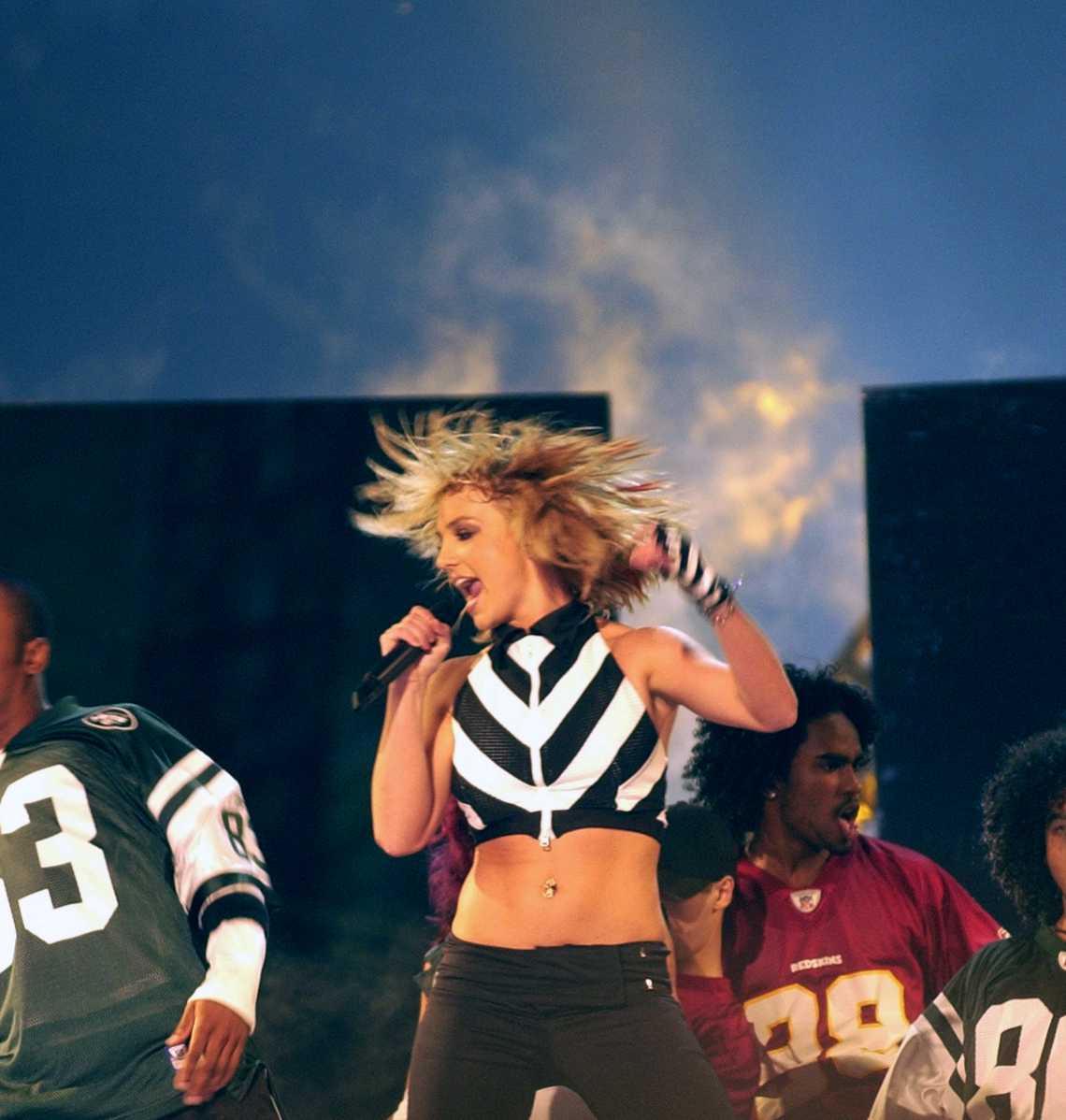 030904-N-9593R-008 Washington, D.C. – Recording Artist Britney Spears performs during the “NFL Kickoff Live from the National Mall Presented by Pepsi Vanilla” concert on September 4, 2003. Organizers provided priority seating for military members and their families to recognize "Operation Tribute to Freedom", which the Department of Defense established to encourage Americans to show their appreciation to the Department's uniformed personnel. Among the other performers were Aerosmith, Mary J. Blige, Aretha Franklin, and Good Charlotte.